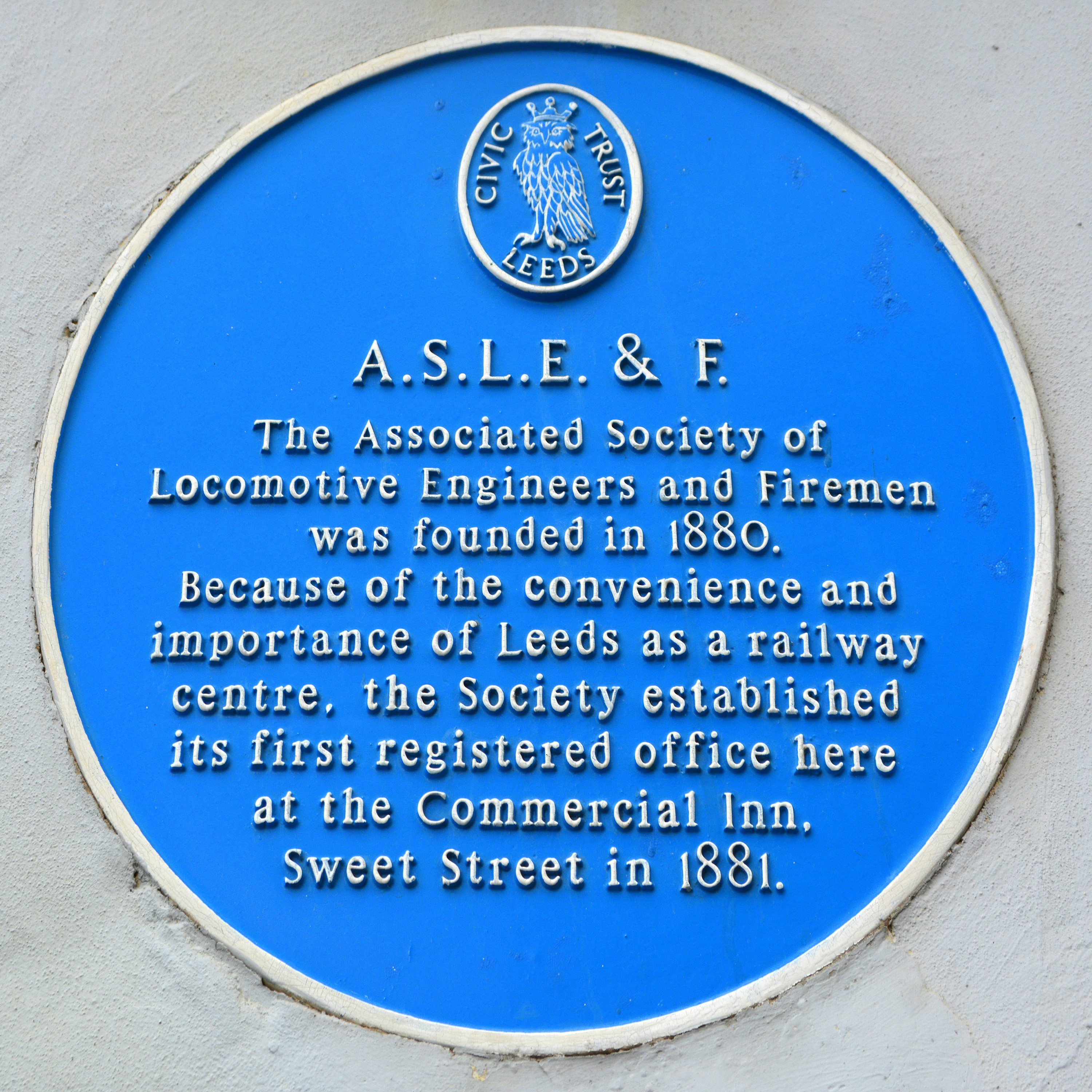 The Commercial...